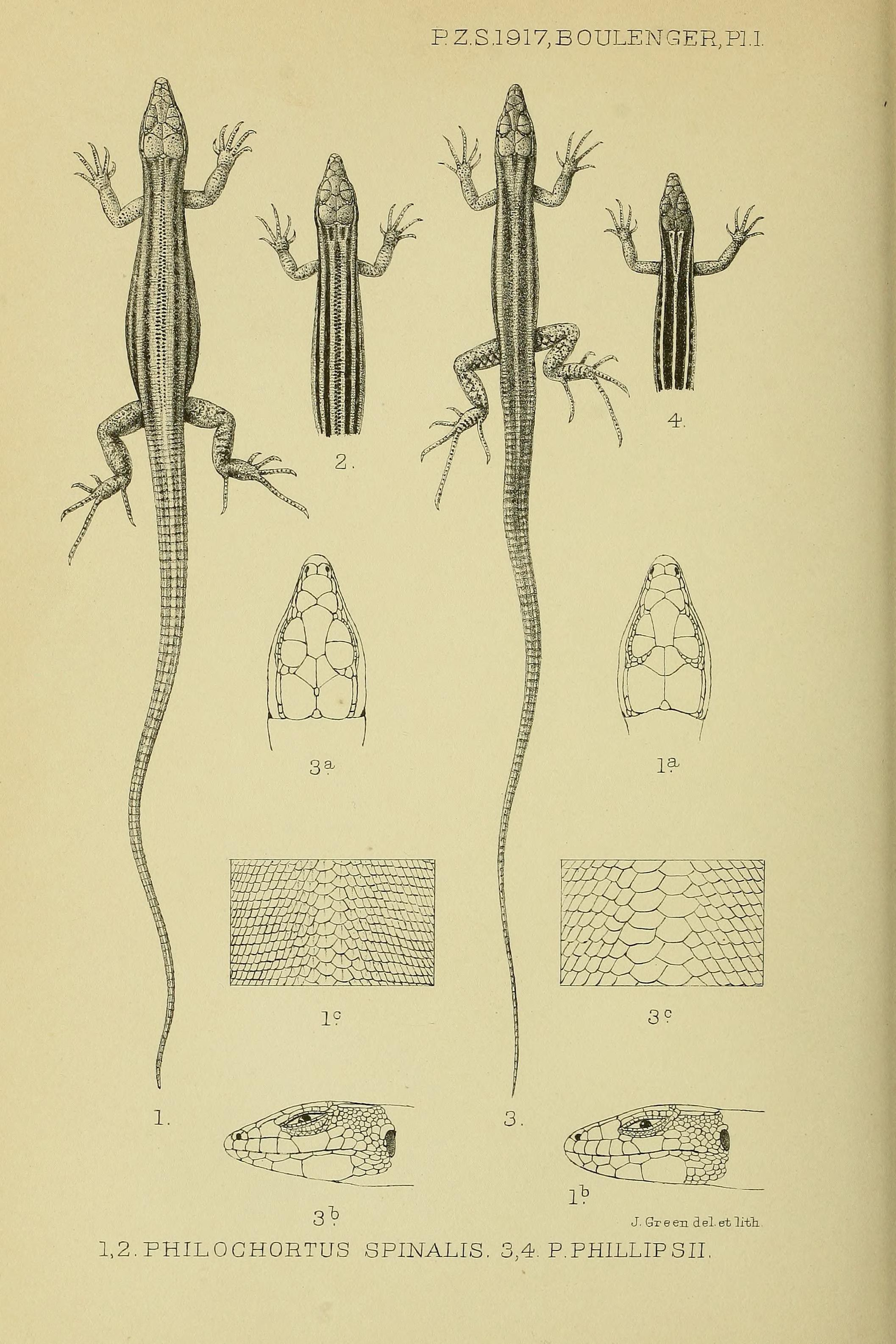 Drawings of Philochortus spinalis and P. phillipsii